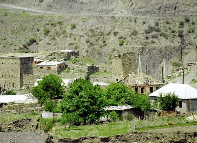 Ancient_City